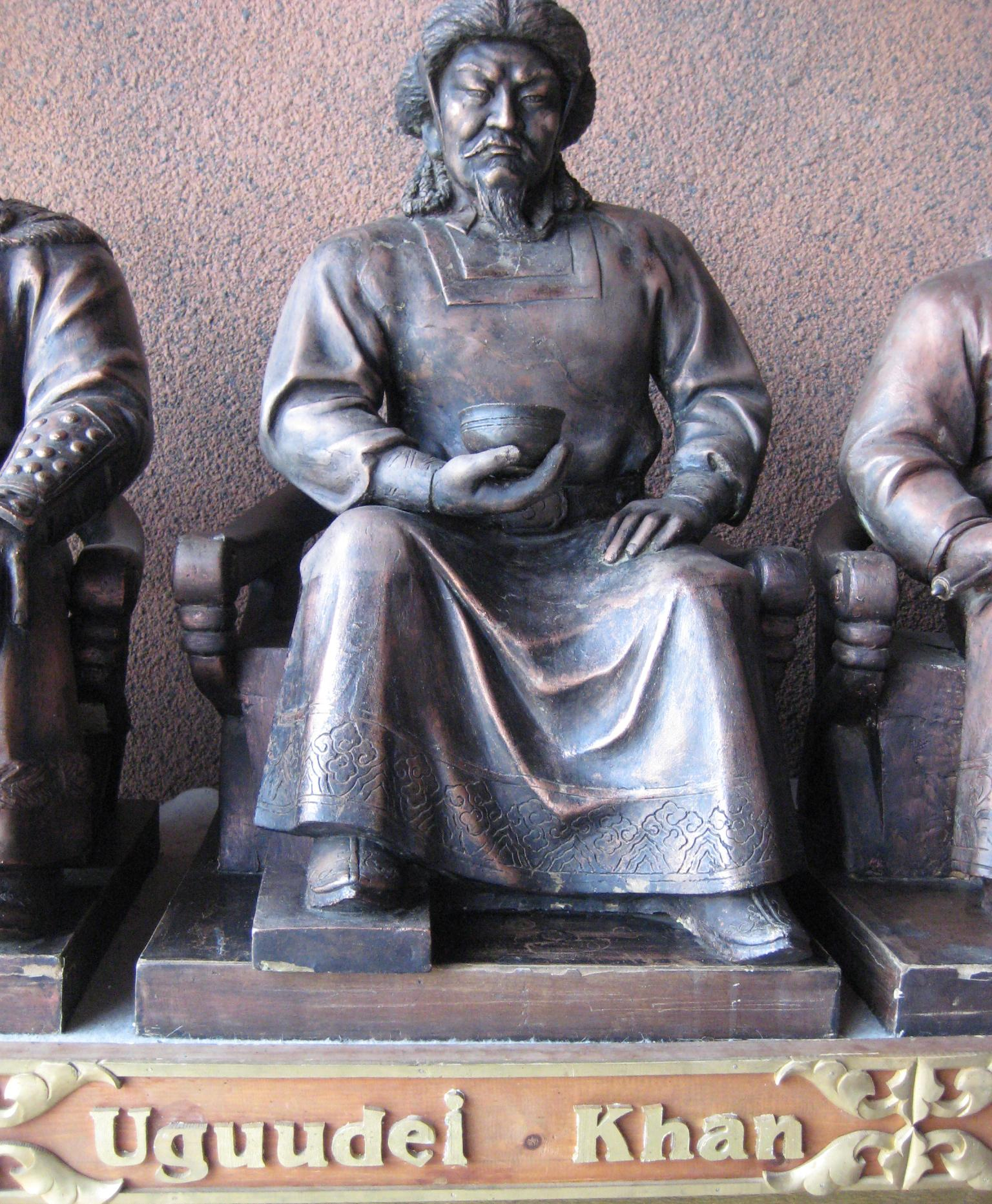 Ogedei's statue in Mongol palace, Gachuurt Mongolia